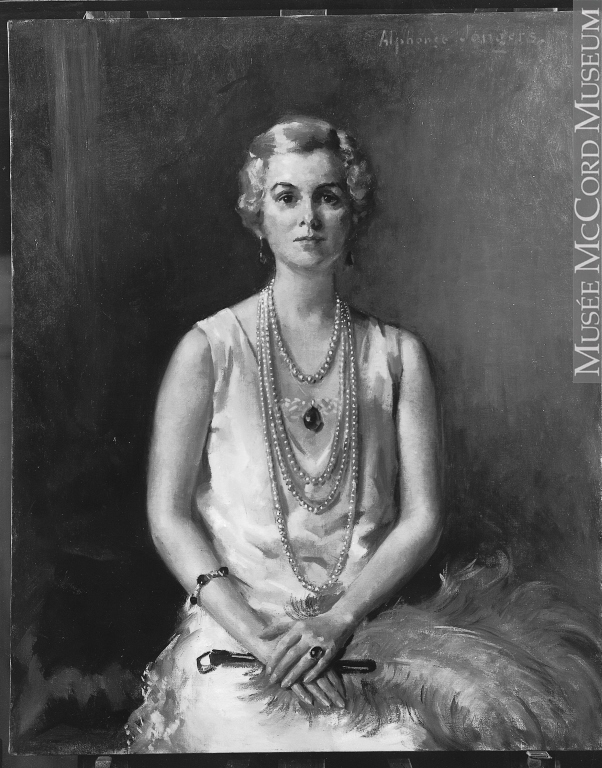 Photograph Mrs. J. K. L. Ross, painting by Alphonse Jongers, 1924 (?) Wm. Notman & Son 1926, 20th century Silver salts on glass - Gelatin dry plate process 25 x 20 cm Purchase from Associated Screen News Ltd. VIEW-23607 © McCord Museum